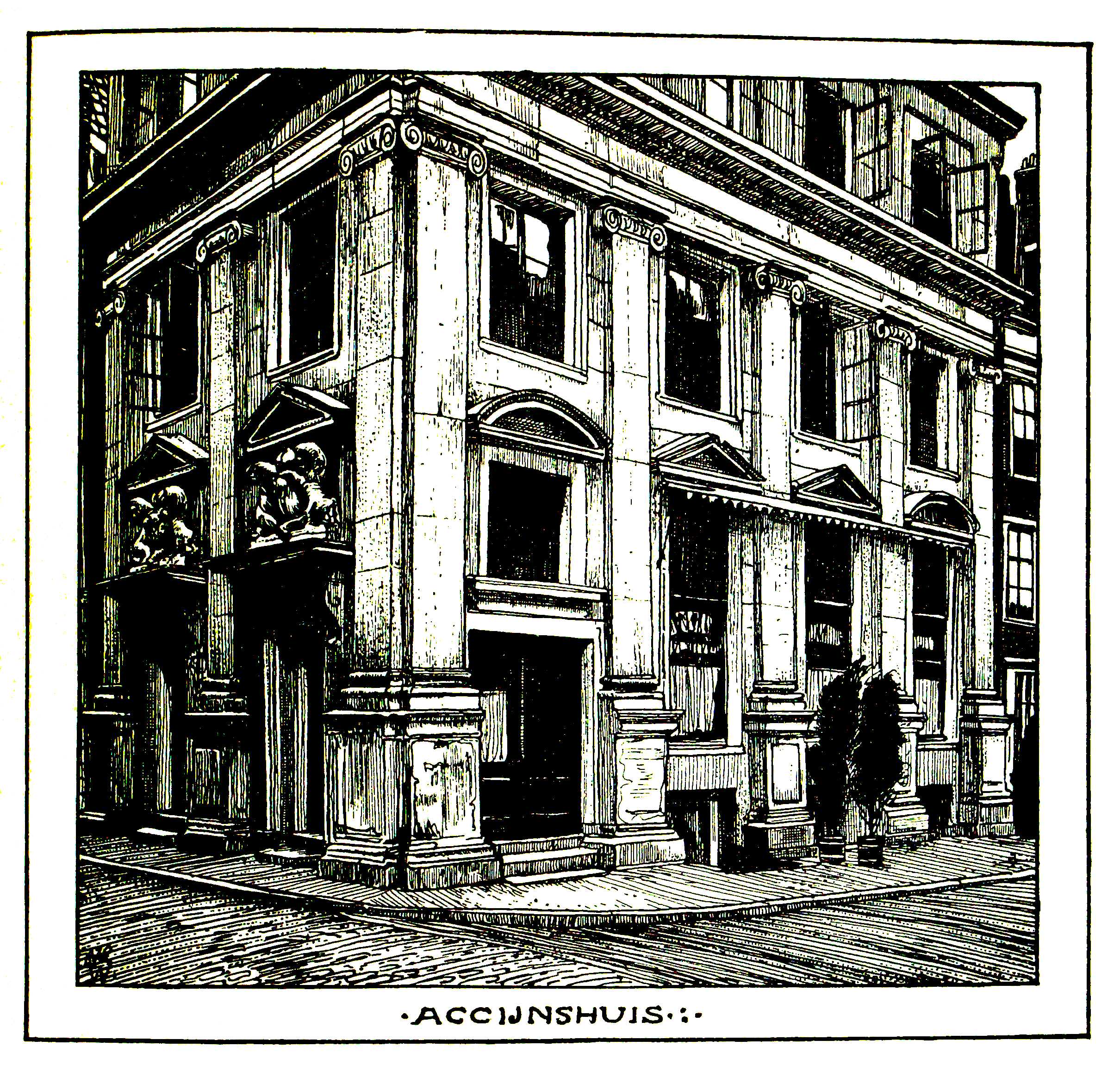 Drawing by L.W.R. Wenckebach of the Accijnshuis (Excise House) in Amsterdam, The Netherlands. Built in 1637-1638, the building is located on the corner of Damrak and Oudebrugsteeg.